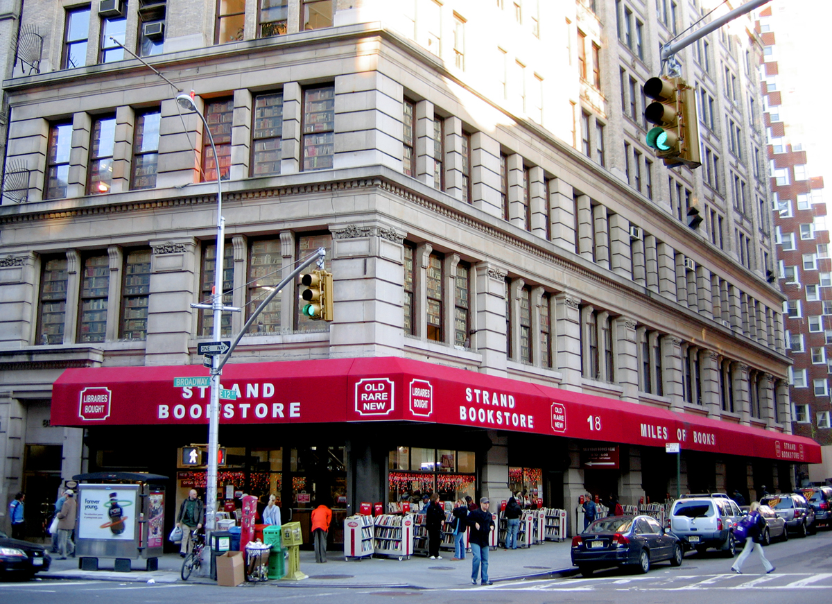 The Strand Book Store, Manhattan, New York, United States.